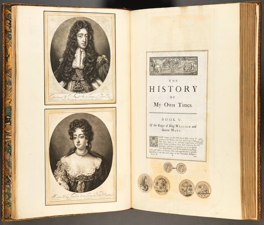 Extraillustration by Richard Bull